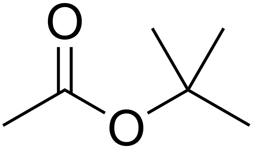 chemical structure of tert-butyl acetate